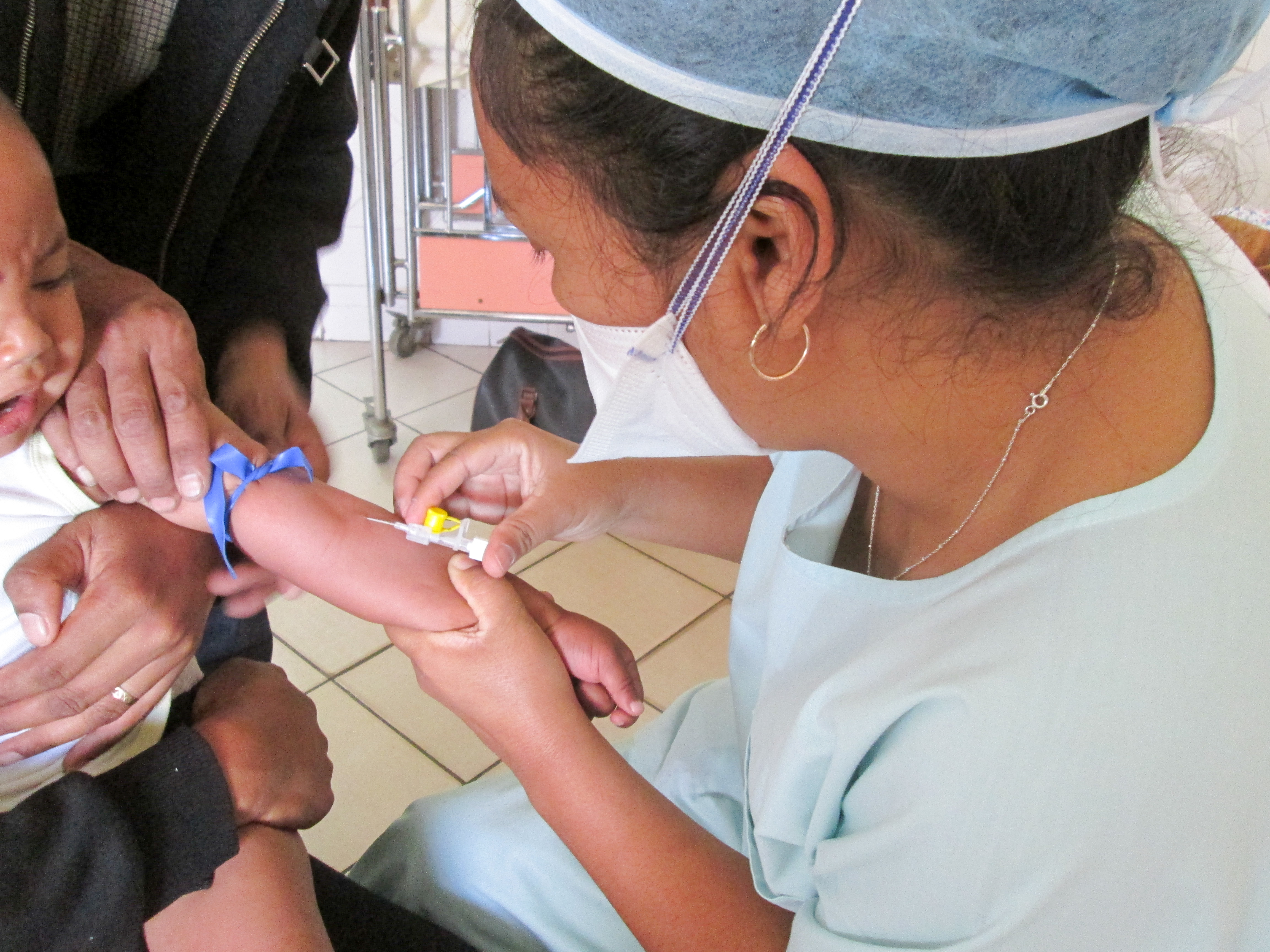 A nurse doing a rapid diagnostic test on a suspected pulmonary plague baby. This is an image of "African people at work" from Madagascar